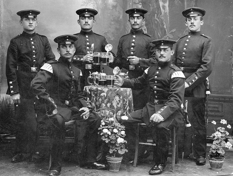 black and white photograph of 6 german soldiers (Infantry men) in 1898